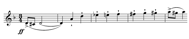 The beginning of the third movement of Anton Bruckner's Symphony No. 0 in D minor